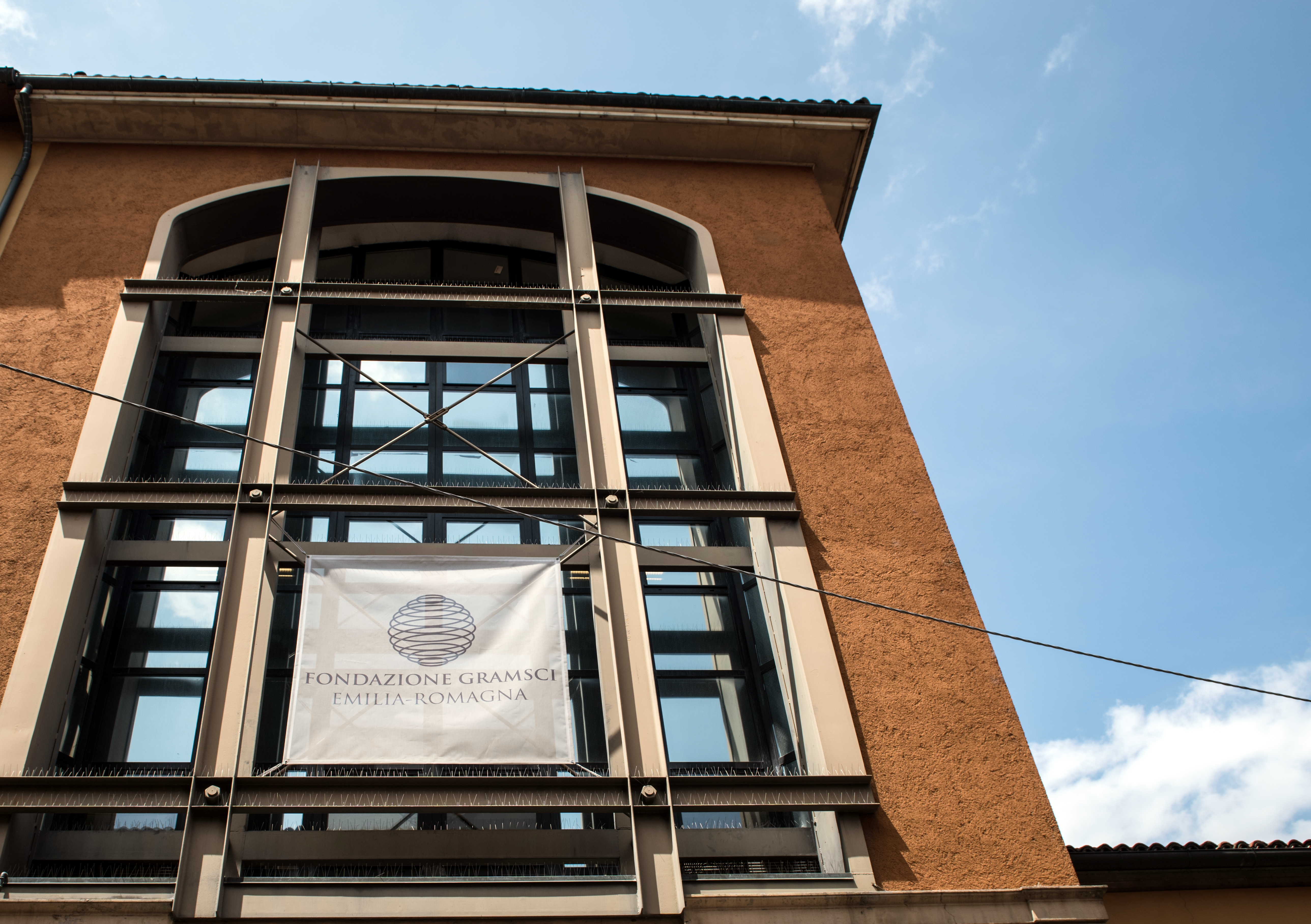 Veduta esterna della biblioteca